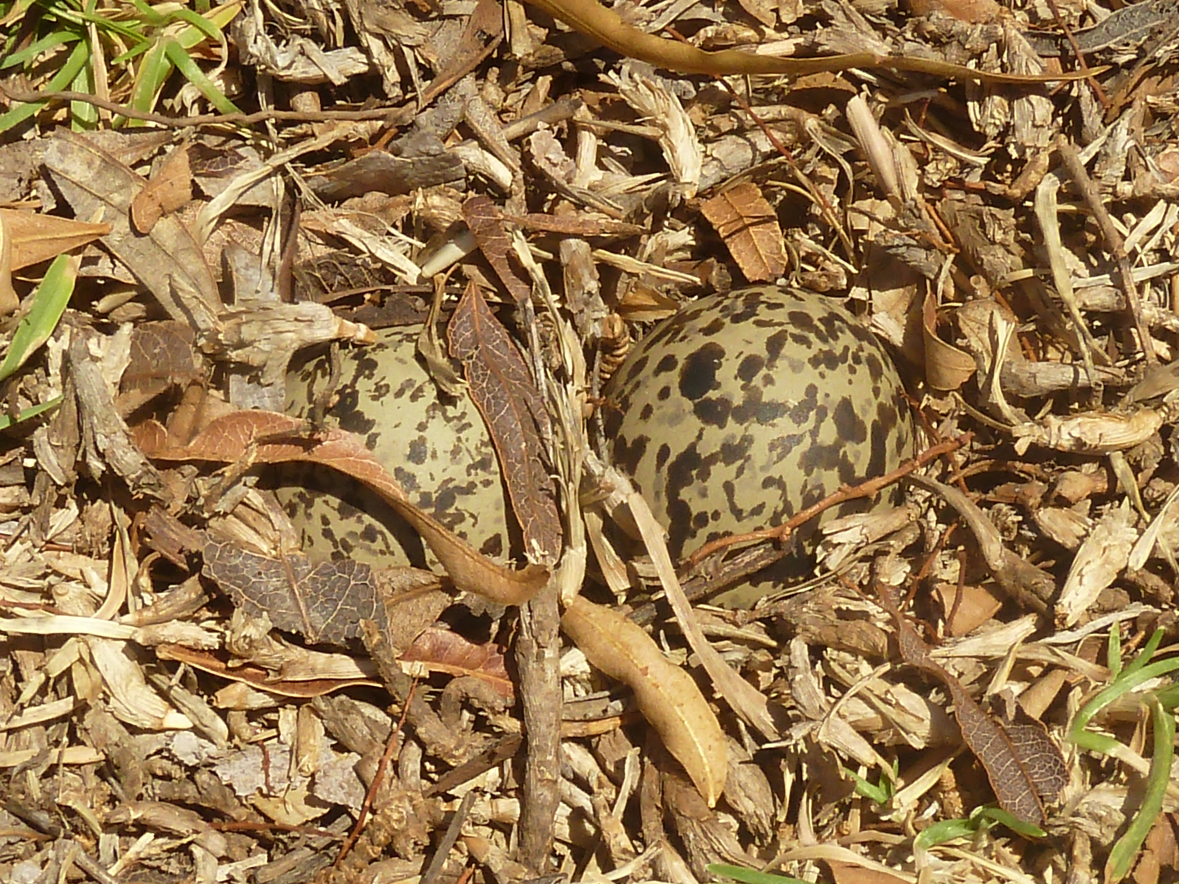 Clutch of two eggs (after one predated by Pied crow) of a Blacksmith lapwing pair at Sunrise view, Pretoria